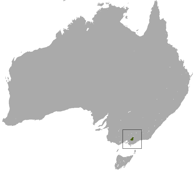 Leadbeater's Possum (Gymnobelideus leadbeateri) range